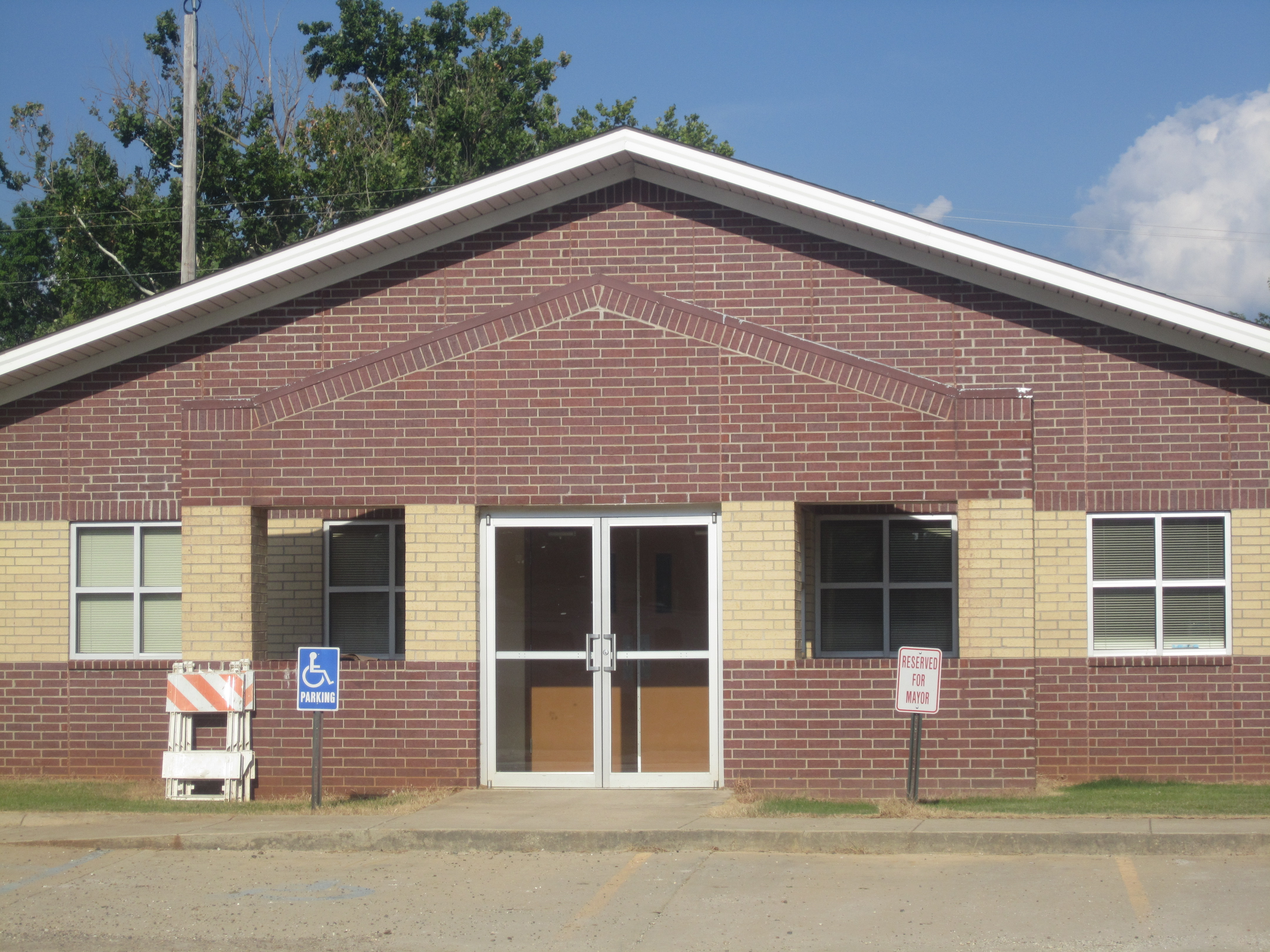 I took photo on June 9, 2012, with Canon camera, in Bradley, AR.Billy Hathorn (talk) 02:08, 29 June 2012 (UTC)